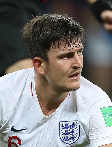 Harry Maguire playing for England against Croatia at the 2018 FIFA World Cup